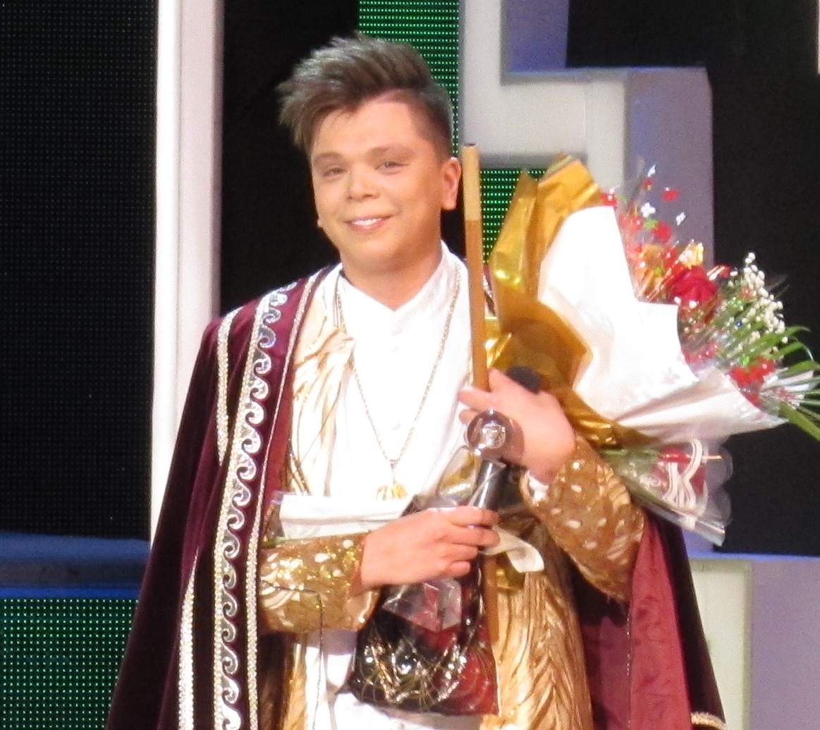 Concert "Yuldash Heath - 2017", Radio "Yuldash", Ufa, State Concert Hall "Bashkortostan", November 15, 2017 Башҡортса: "Юлдаш Хит - 2017" концерты, "Юлдаш" радиоһы, Өфө, "Башҡортостан" ДКЗ, 15 ноябрь 2017